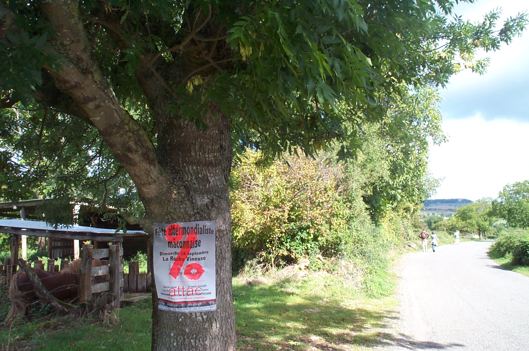 Also on commons. An ATTAC poster in the French countryside (near Ameugny, Saône-et-Loire, Burgundy, France), 2004-09. Copyright © 2004 Kaihsu Tai.